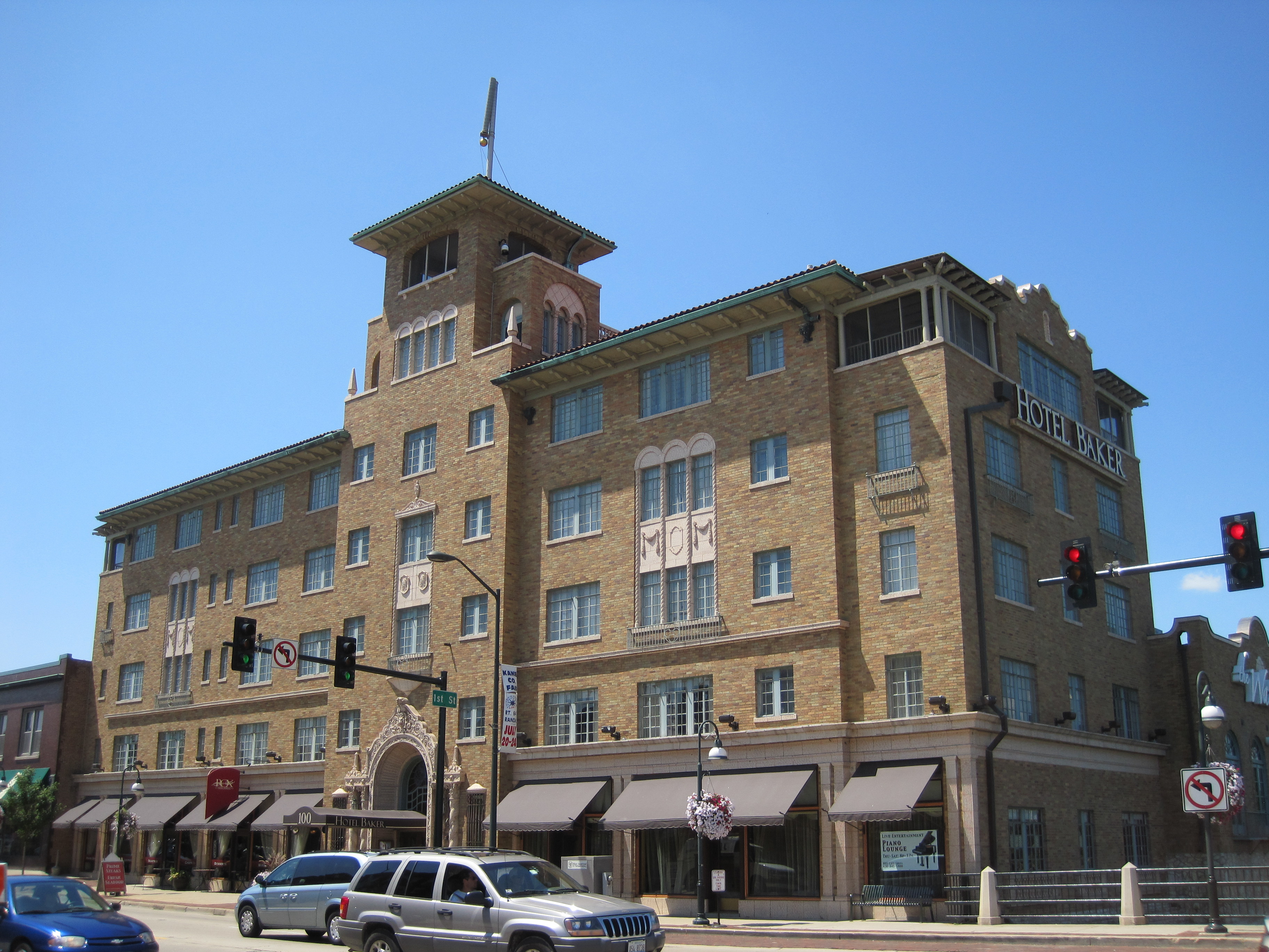 Hotel Baker in St. Charles (1928). Edward J. Baker was an heir of John Warne Gates, who was one of the major distributors of barbed wire and was a founder of Texaco.